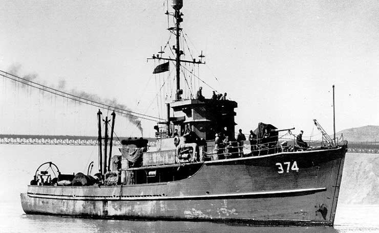 USS YMS-374 In San Francisco Bay, California, shortly after the end of World War II, circa late 1945 or early 1946. This ship later became USS Kite (AMS-22). Courtesy of Donald M. McPherson, 1976. Naval Historical Center Photograph.